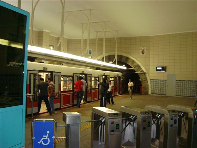 Tünel, Istanbul